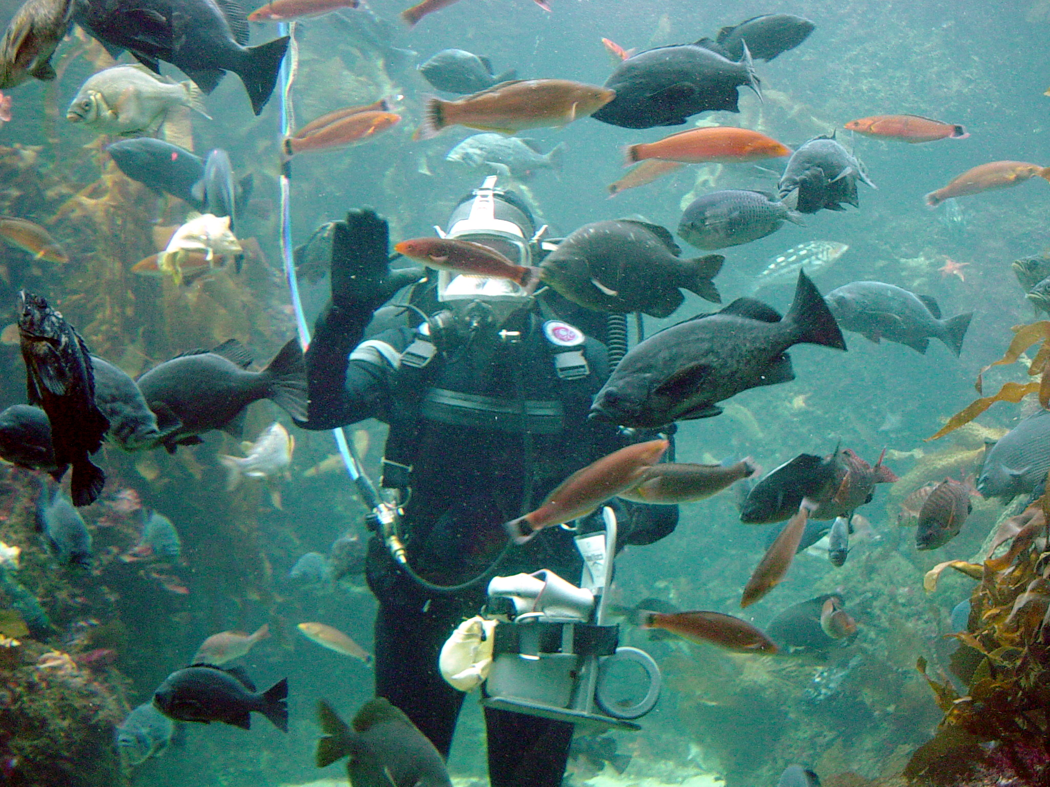 Surface supplied diver at the Monterey Bay Aquarium High resolution 2048X1536 Image by User:Leonard G. 1024X768 medium resolution image at Image:AquariumDiver.jpg Category:Images of people